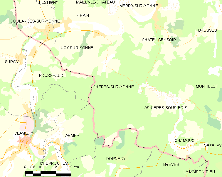 Map of French municipality Lichères-sur-Yonne